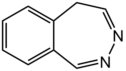 Structure of 5H-benzo[d][1,2]diazepine